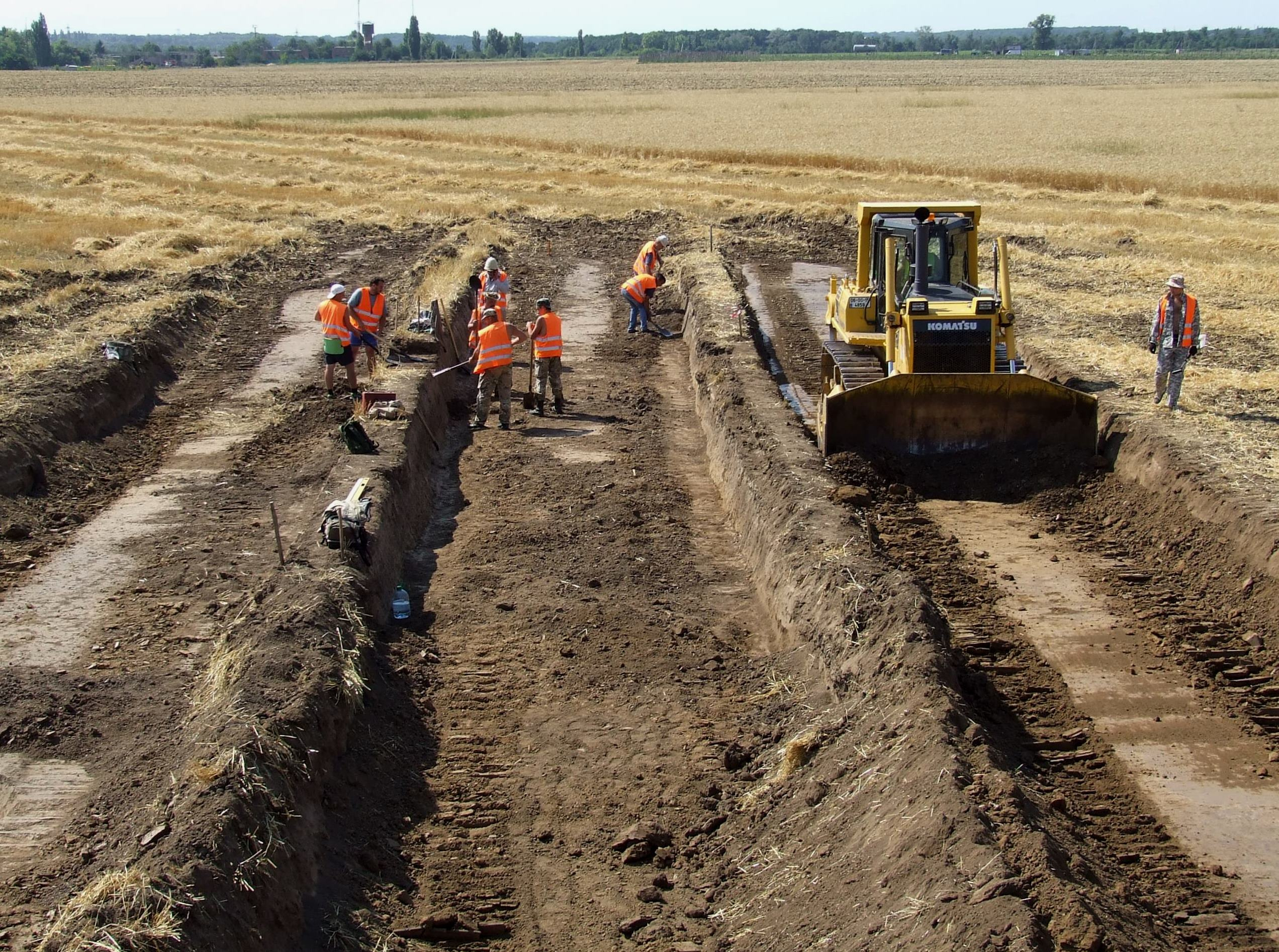 The protective archeological excavations in the area of new road construction in the suburbs of Poltava (regional centre in Ukraine) in July of year of 2017 leaded by Oleksander Suprunenko. Oleksander Suprunenko is the famous archeologist and historian with practical experience of more than 35 years, historiographer, museum associate, Candidate of History Science. He was the director of the Centre of protection and research of archeological monuments of Department of culture in Poltava region since year of 1993 up to year of 2016, since December 01, 2016 – is the acting director of Local History museum in Poltava named by Vasyl Krychevsky. O.Suprunenko is the author of more than 900 scientific and journalistic publications, including 35 monographs and collective monographs, the scientific editor of tens of periodicals specialized in history, archeology and local history studies.